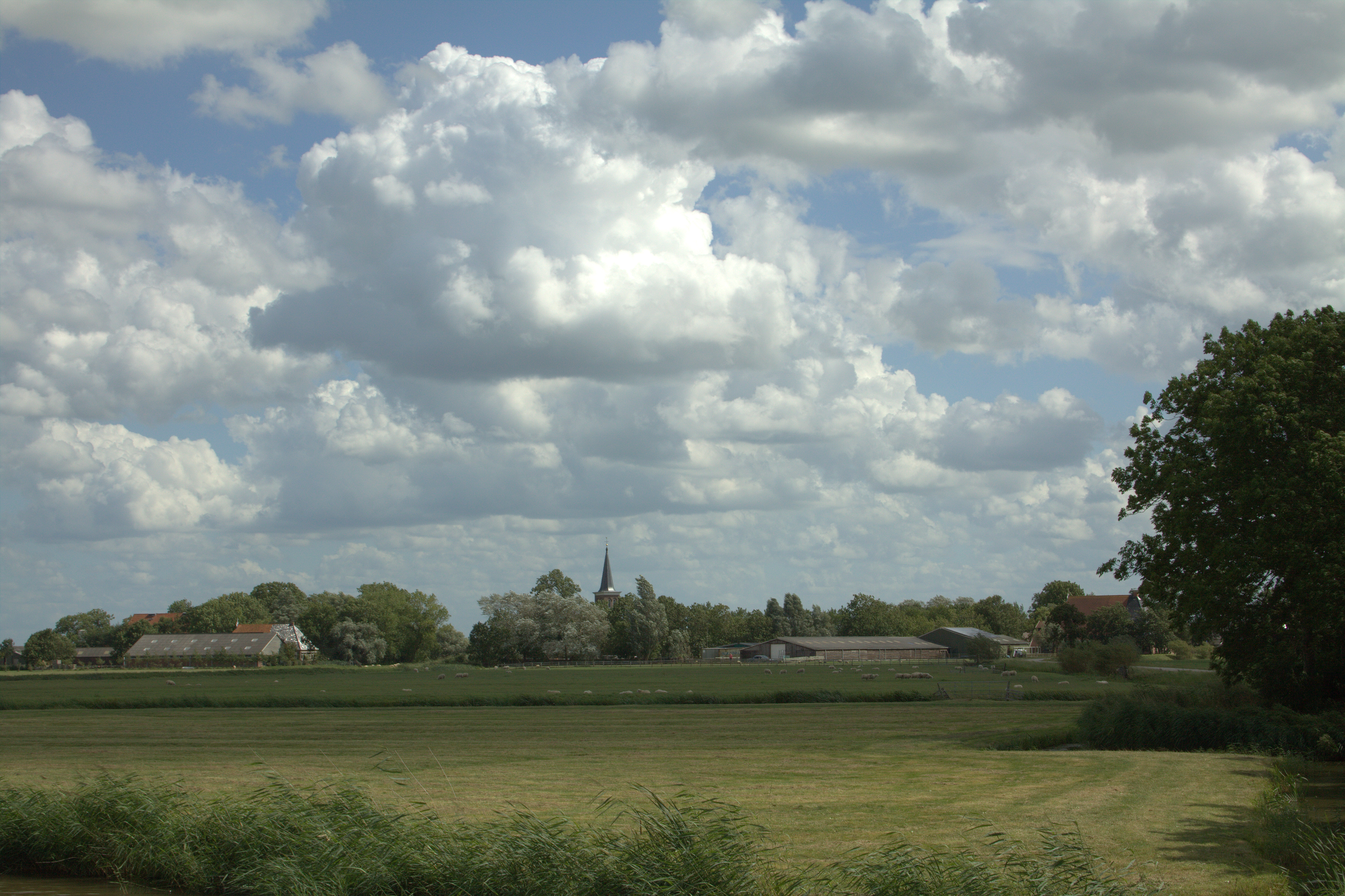 Lions zien we in de verte in de uitgestrekte polder met een mooie lucht, zoals we dat zo vaak zien in Friesland.